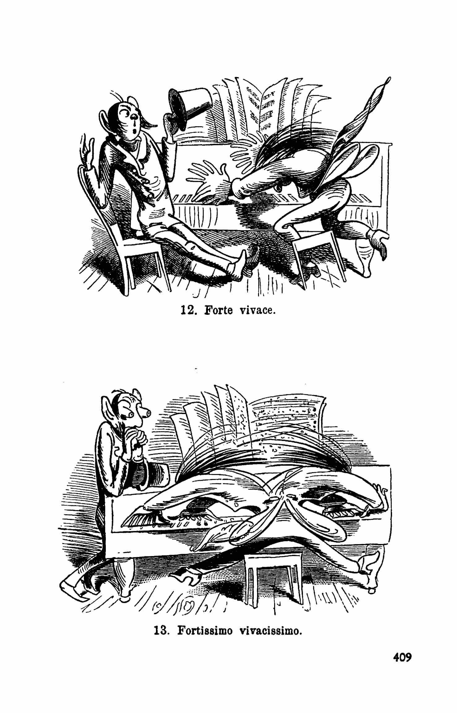 This is a scan of the historical document